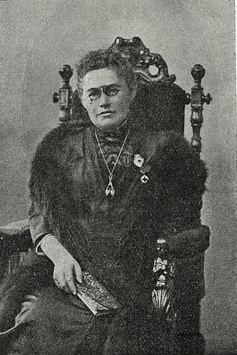 Елизавета Ивановна Малама